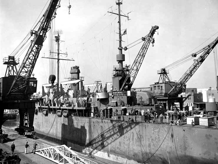 USS Galilea (AKN-6) at the Charleston Naval Shipyard, Charleston, S.C., 17 February 1947. The yard is preparing the ship for inactivation following cancellation of her conversion to a net cargo ship in December 1946. There is little evidence of the conversion in this photo; most of the alterations were at the stern or inside the ship. US Navy photo # NH 104250 from the collections of the US Naval Historical Center.